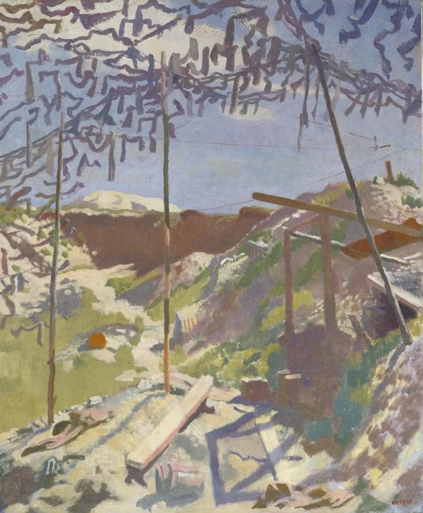 A German Gunners Shelter, Warlencourt image: A view along a trench from underneath a camouflage net. Stone and shards of wood lie on the ground, and there is a white topped hill visible in the distance.